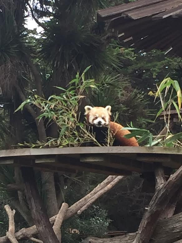 red panda at San Fransisco Zoo, eating bamboo trees.